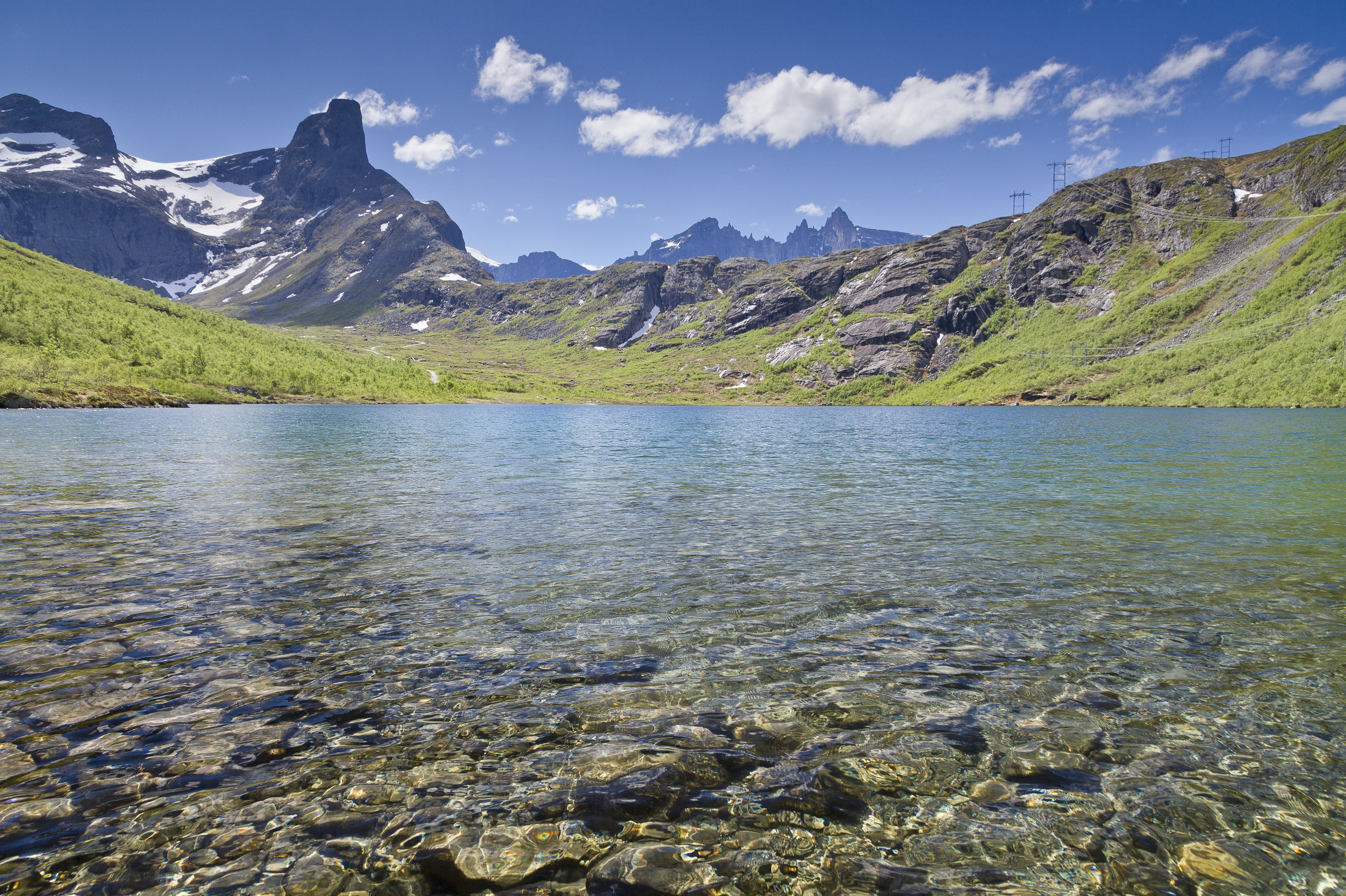 A view to Vengedalen over Vengedalsvatnet in Rauma municipality, Møre og Romsdal, Norway in 2013 June. The mountain peak to the right is Romsdalshornet. The sharp summits behind the ridge in the center belong to Trolltindene.